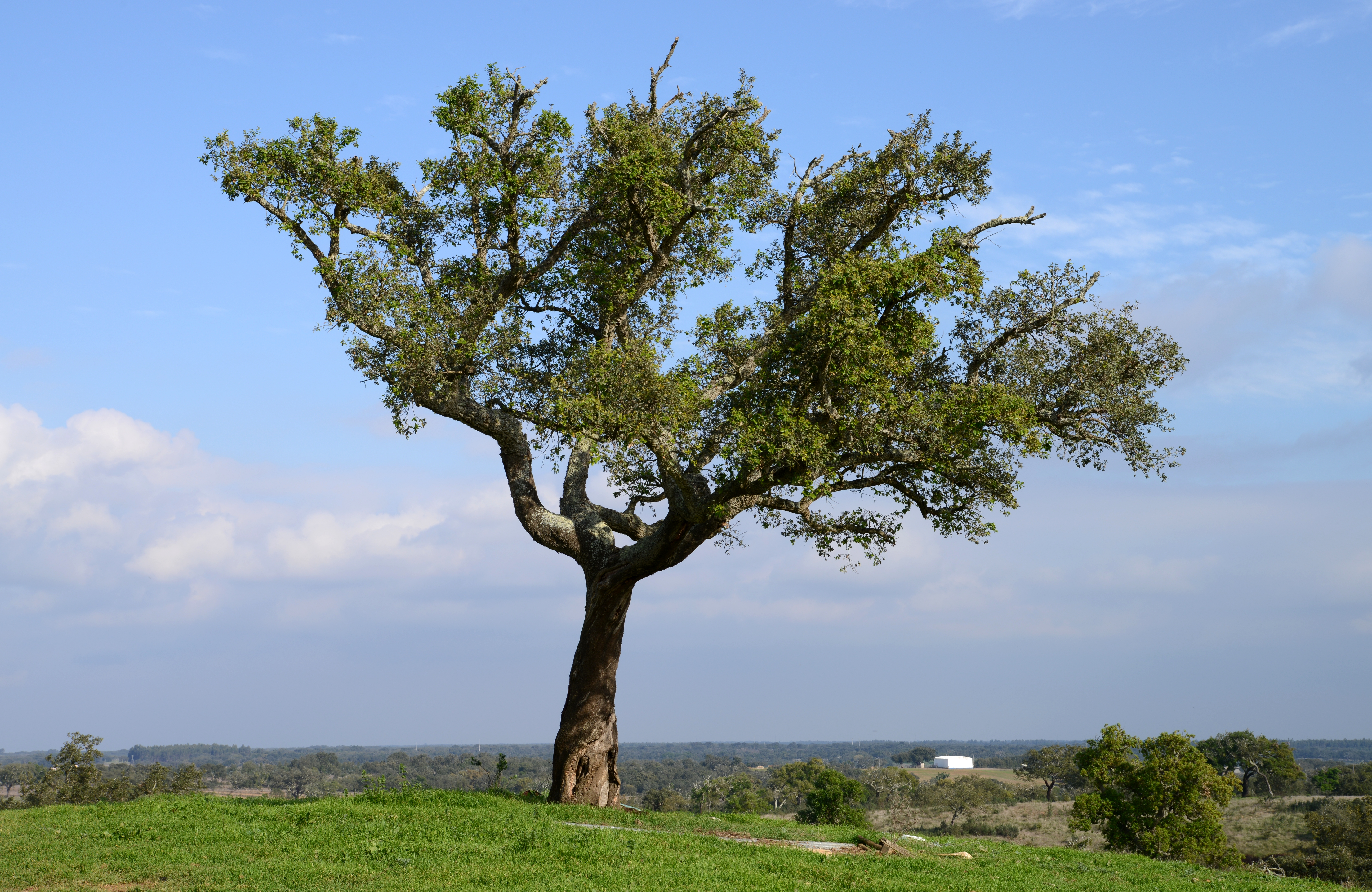 A cork oak near the village of Cercal, Portugal